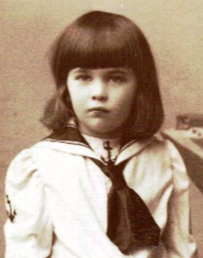 Assen Ludwig Alexander, Graf von Hartenau, son of Alexander of Battenberg. Graz, Austria-Hungary, around 1894